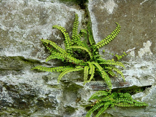 Ferns at Cymer Abbey Maidenhair Spleenwort (Asplenium trichomanes).